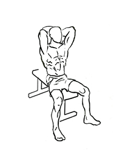 an exercise of triceps